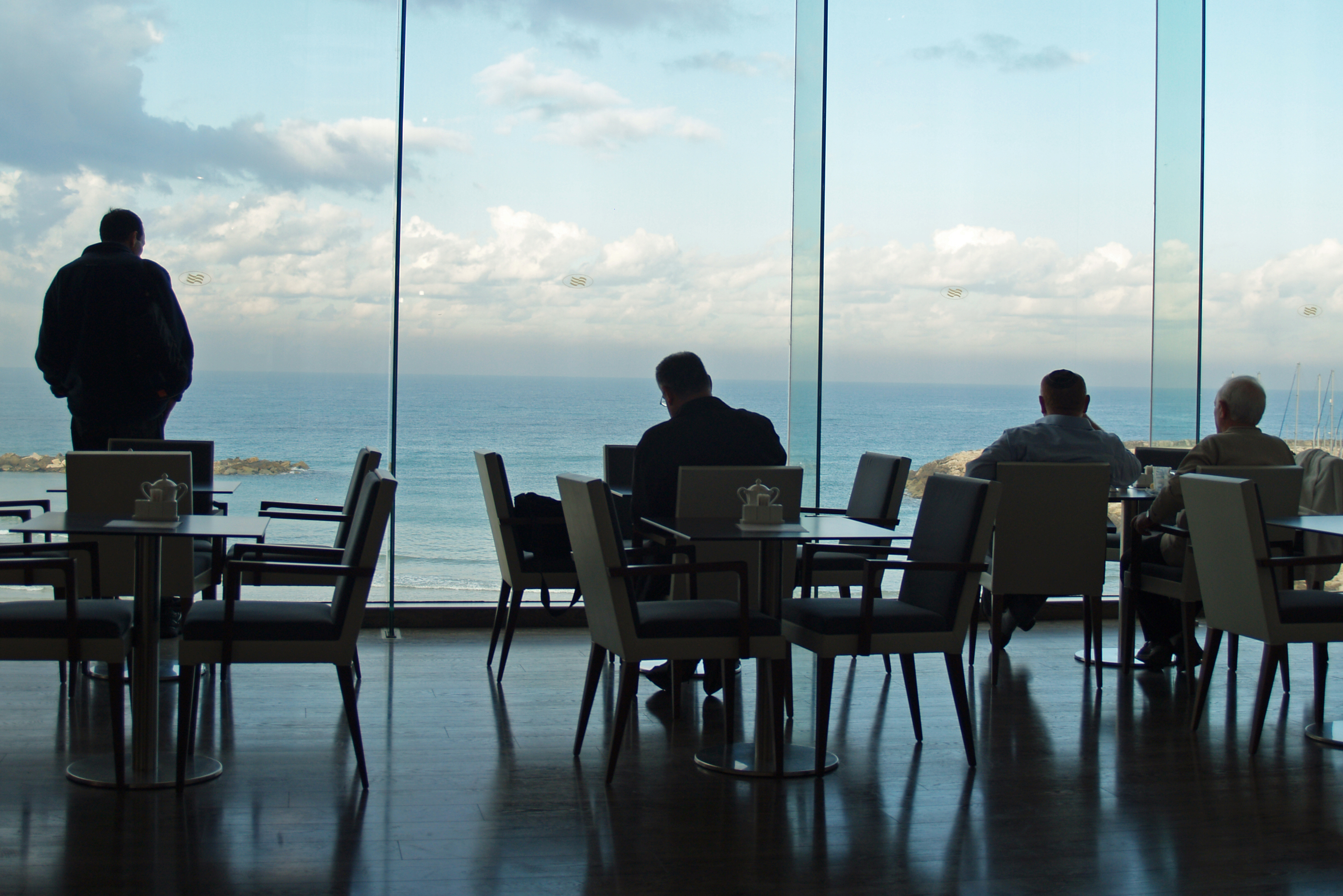 Relaxation in Tel Aviv hotel.